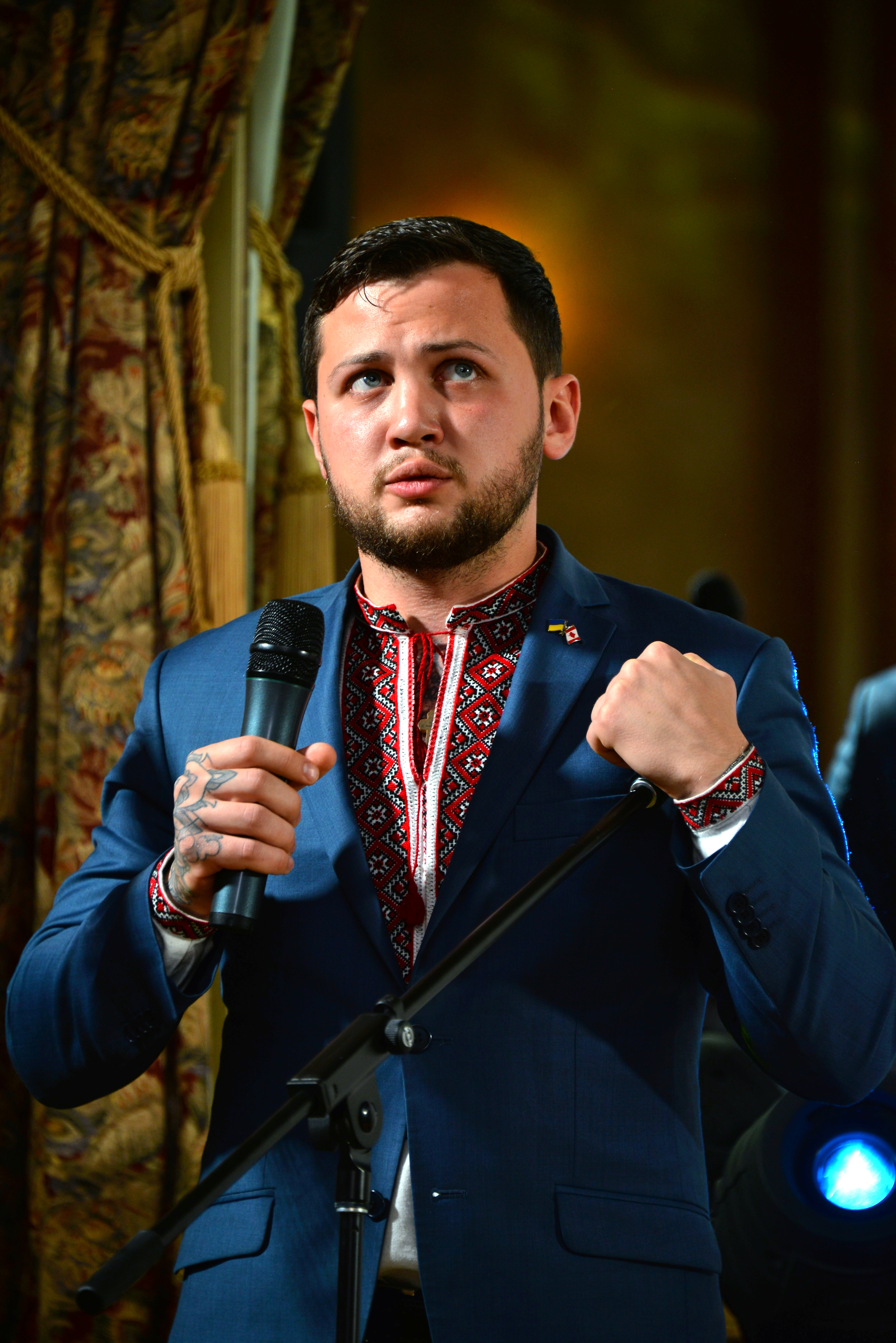 Ukrainian human rights activist Hennadiy Afanasyev, unlawfully detained by Russian repressive bodies after the fabricated lawsuit, having a speech in Toronto 3 months after hes freeing from Russian prison